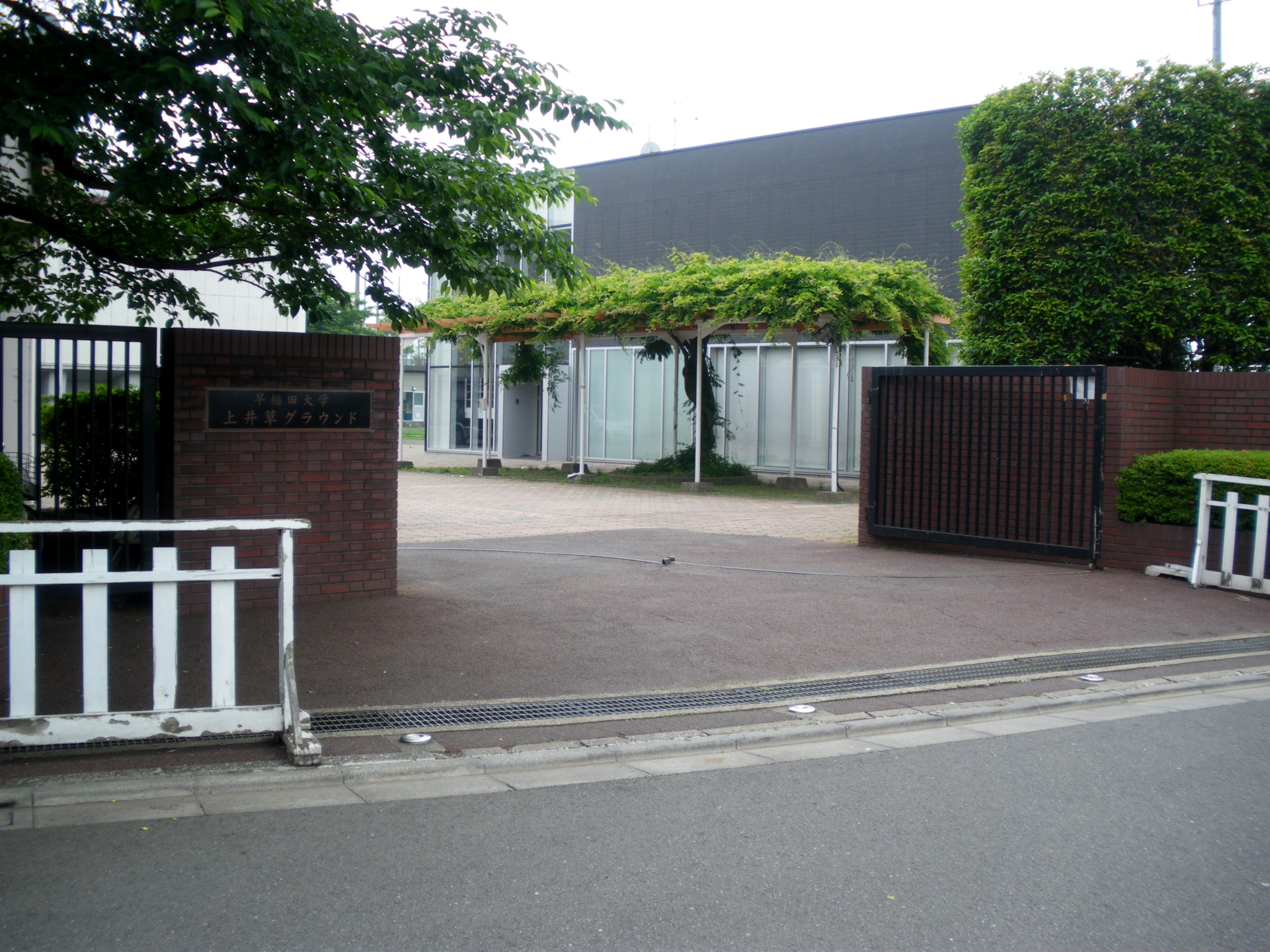 Waseda University Kamiigusa Ground(Suginami,Tokyo)